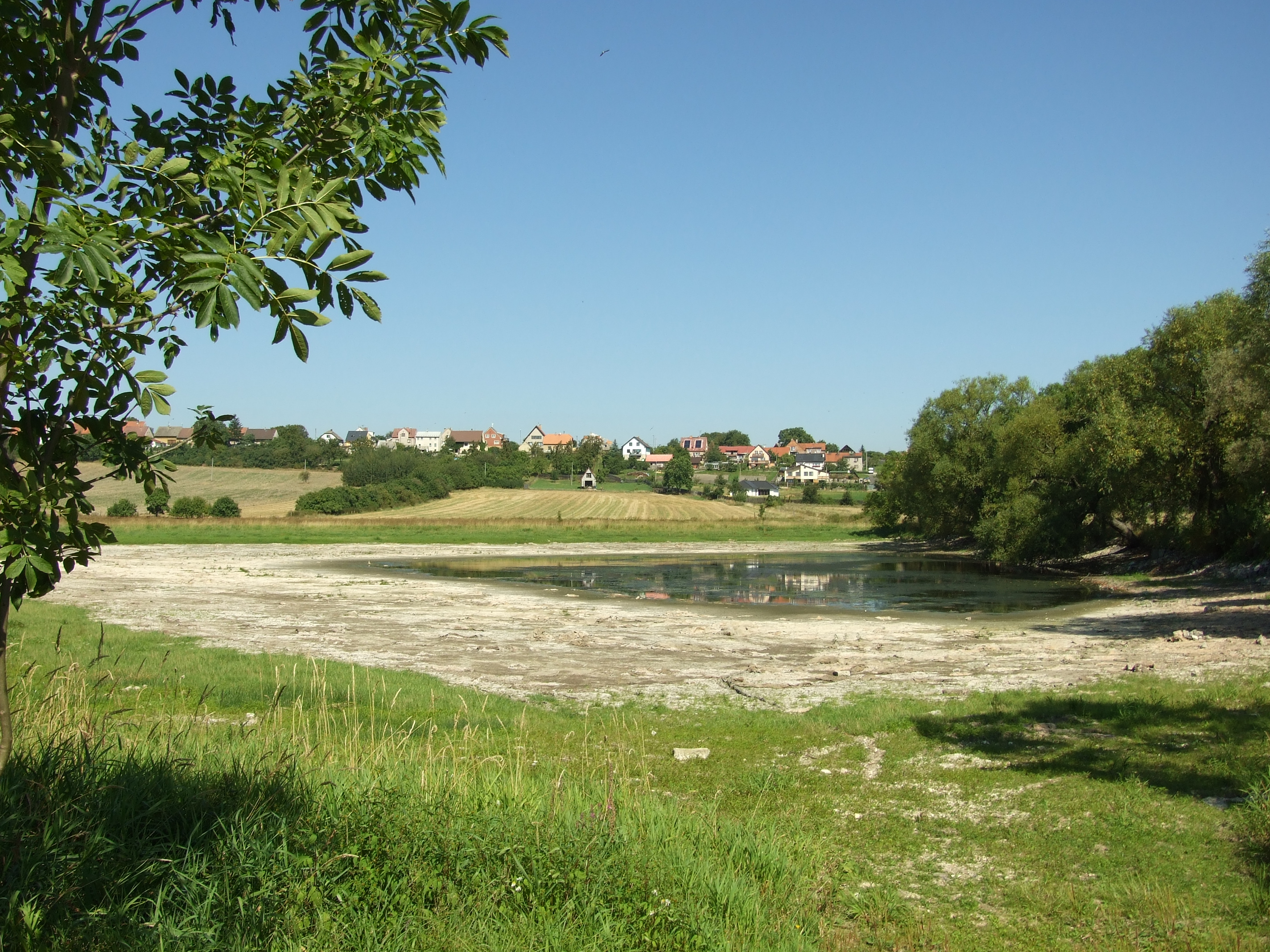 Mšecké Žehrovice village in Rakovník district, Central Bohemian region, CZ This photograph was taken within the scope of the 'Czech Municipalities Photographs' grant.